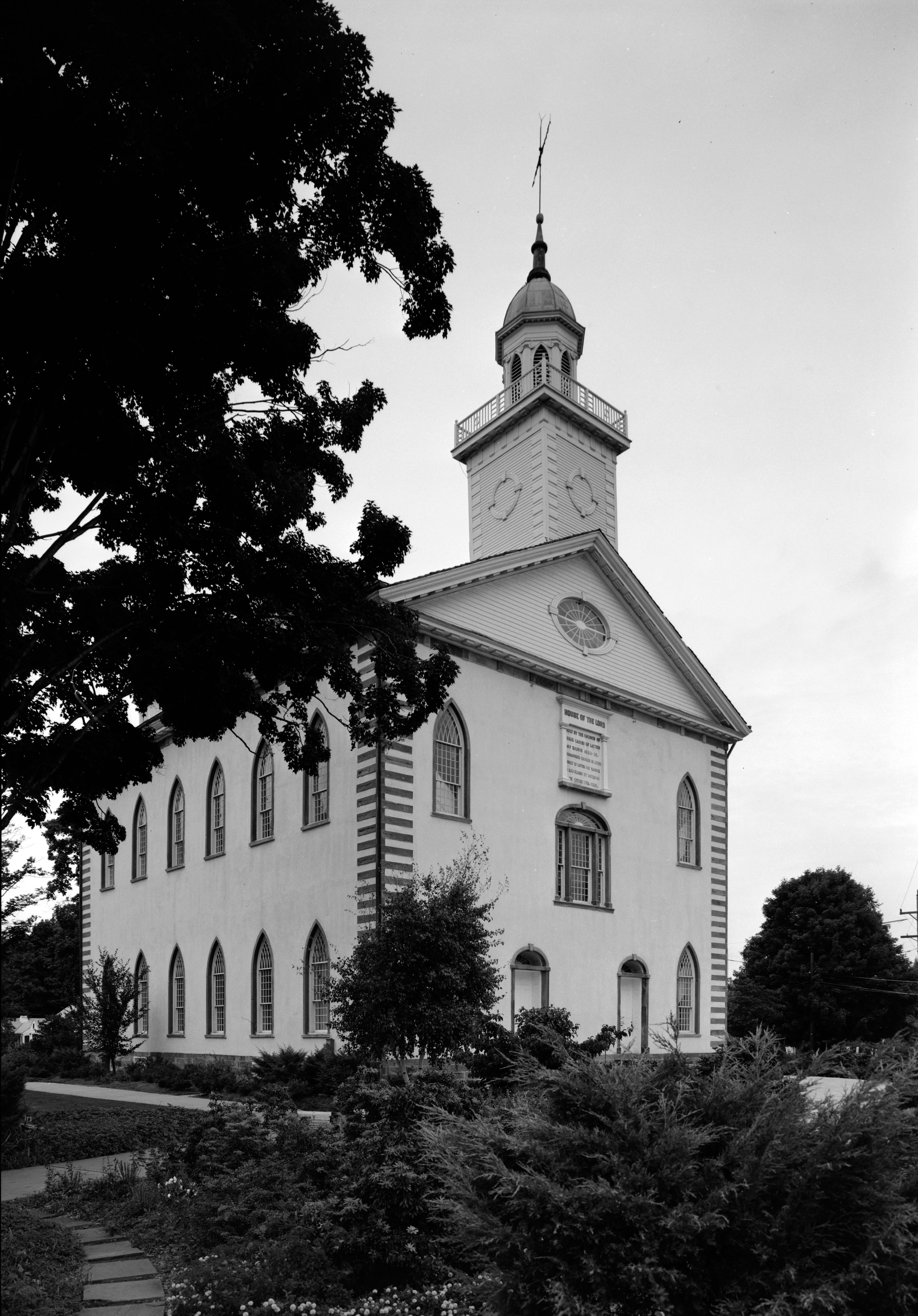 Kirtland Temple, 9020 Chillicoth Road, Kirtland, Lake County, Ohio, USA - exterior, east front and south side. Built in 1836, now owned and used for religious congregations by the Community of Christ.